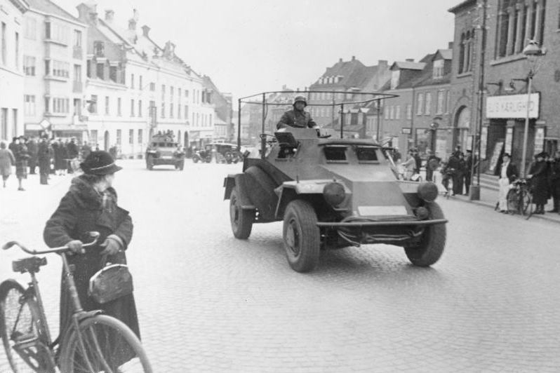 Actually this is SdKfz.223 radio armoured car